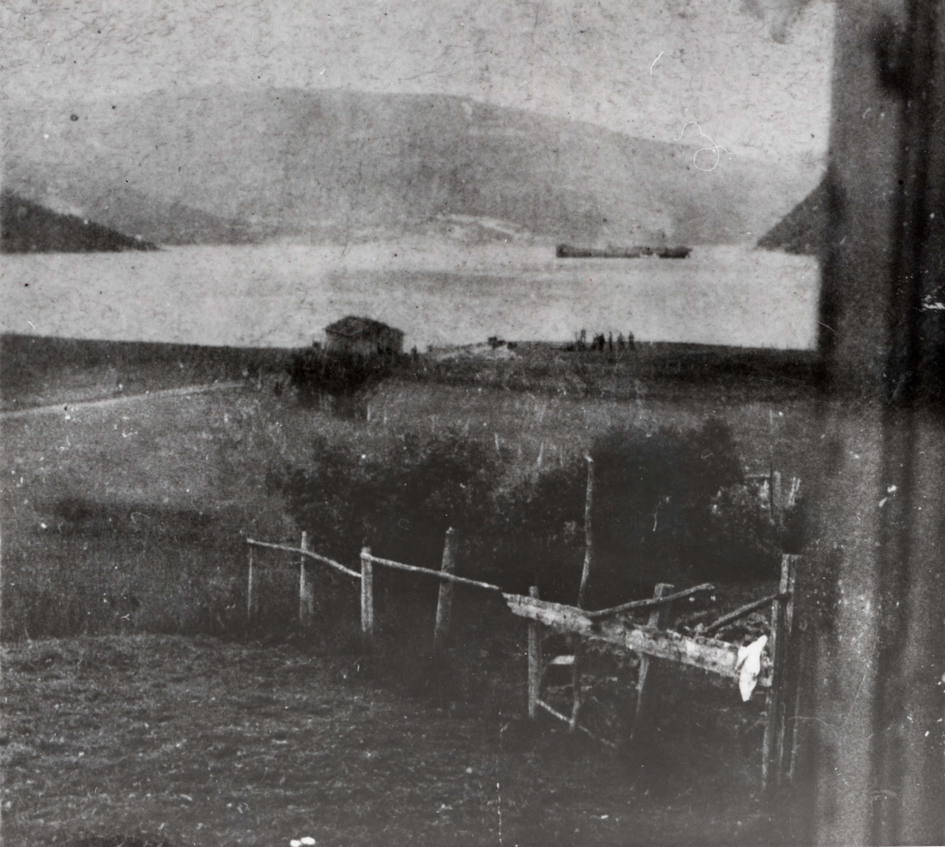 Ship with prisoners of war to Botn, Saltdal, Norway, 1942.